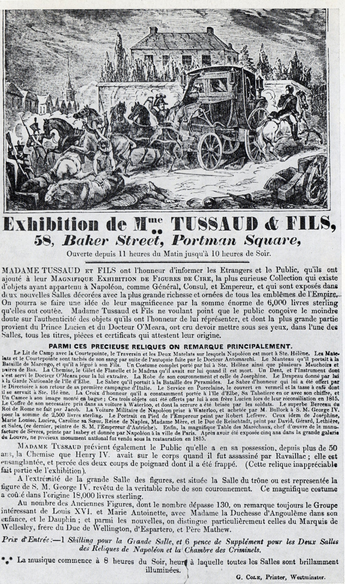 Poster advertisement for the 1835 Tussaud wax character's exhibition in London.